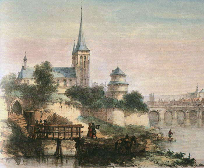 View on Wyck and Maastricht, with the old Saint Martin's Church, demolished in 1853, Saint Martin's Gate and Wycker Kruittoren (Wyck Gunpowder Tower), both demolished in 1868. Coloured lithograph by Alexander Schaepkens, 1840.